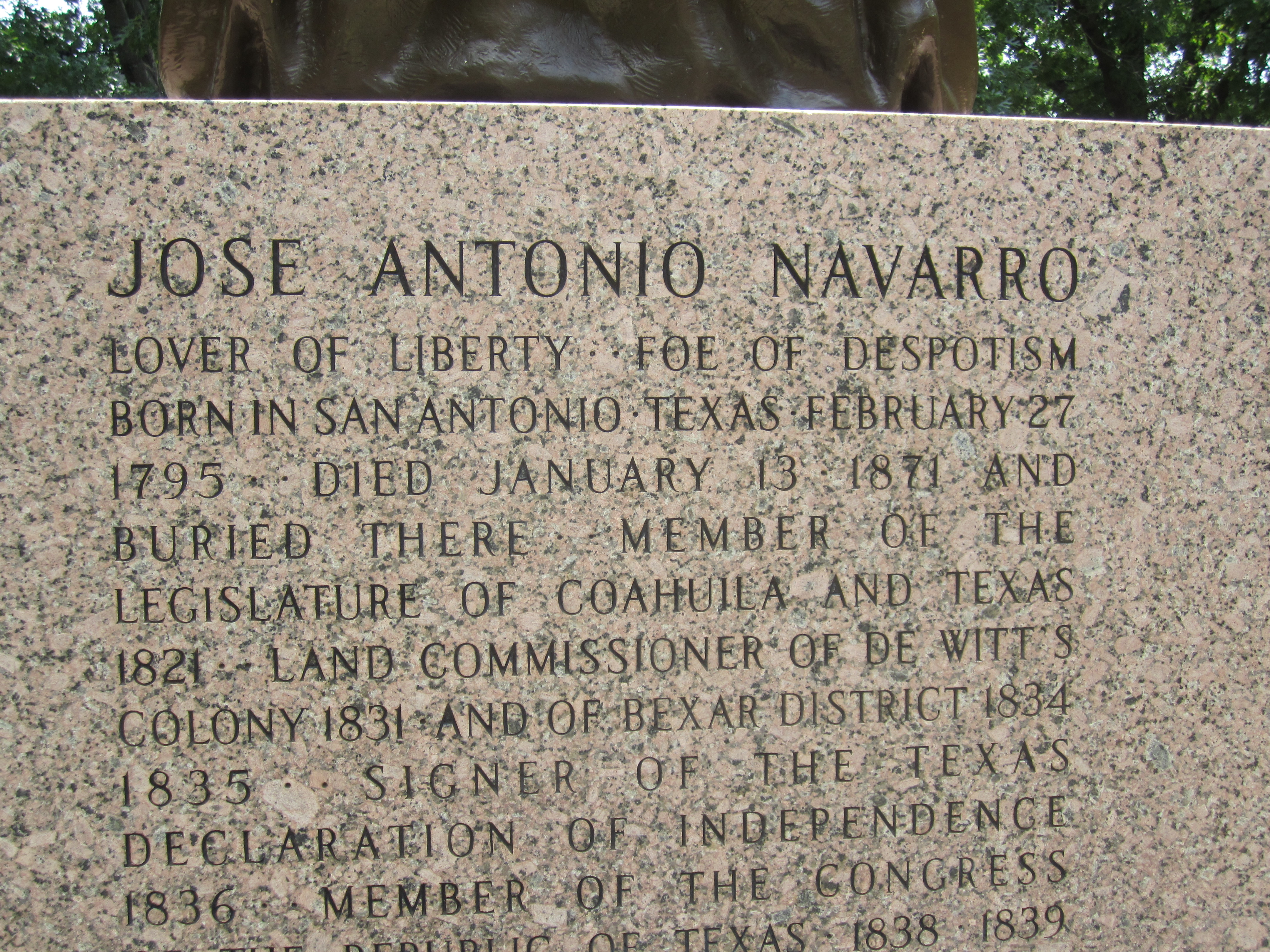 I took photo with Canon camera in Corsicana, TX.